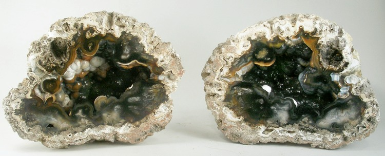 Quartz (Var.: Chalcedony) Locality: Tampa Bay, Tampa, Hillsborough County, Florida, USA (Locality at ) Size: 16.8 x 12.7 x 6.1 cm (largest). A stunning large cabinet pair from a sliced and polished hollow sphere of coral - you can clearly see the pattern on the outside - that has been replaced or filled inside with botryoidal chalcedony. The lustrous botryoids have a gorgeous variety of color. They look like pearls. The hole in one side is really interesting. This is one of those unusual cases where biology meets mineralogy. This specimen is from the Hauck Collection.